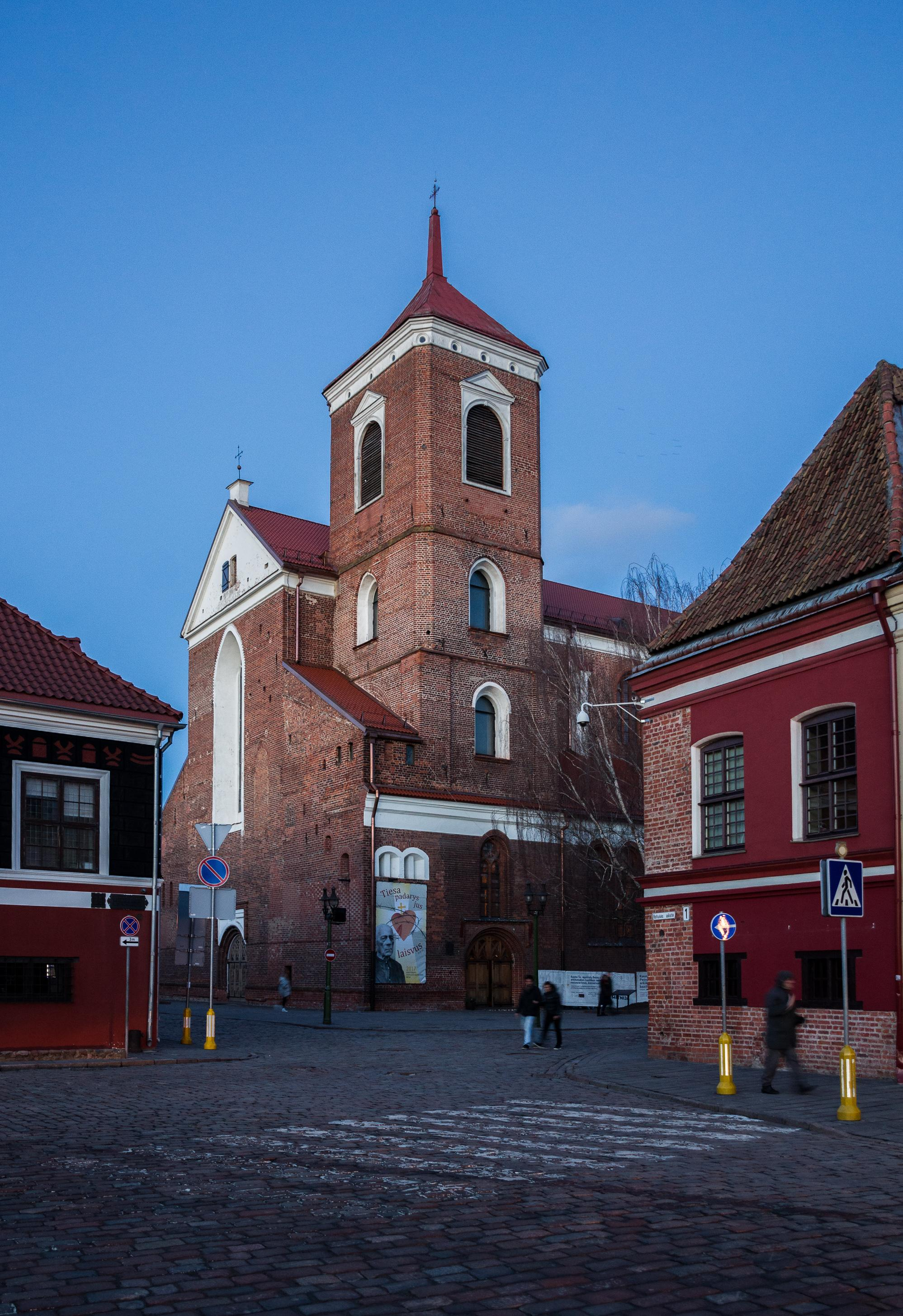 Church of Saint Peter and Saint Paul (Kaunas Cathedral Basilica) in Kaunas, Lithuania.